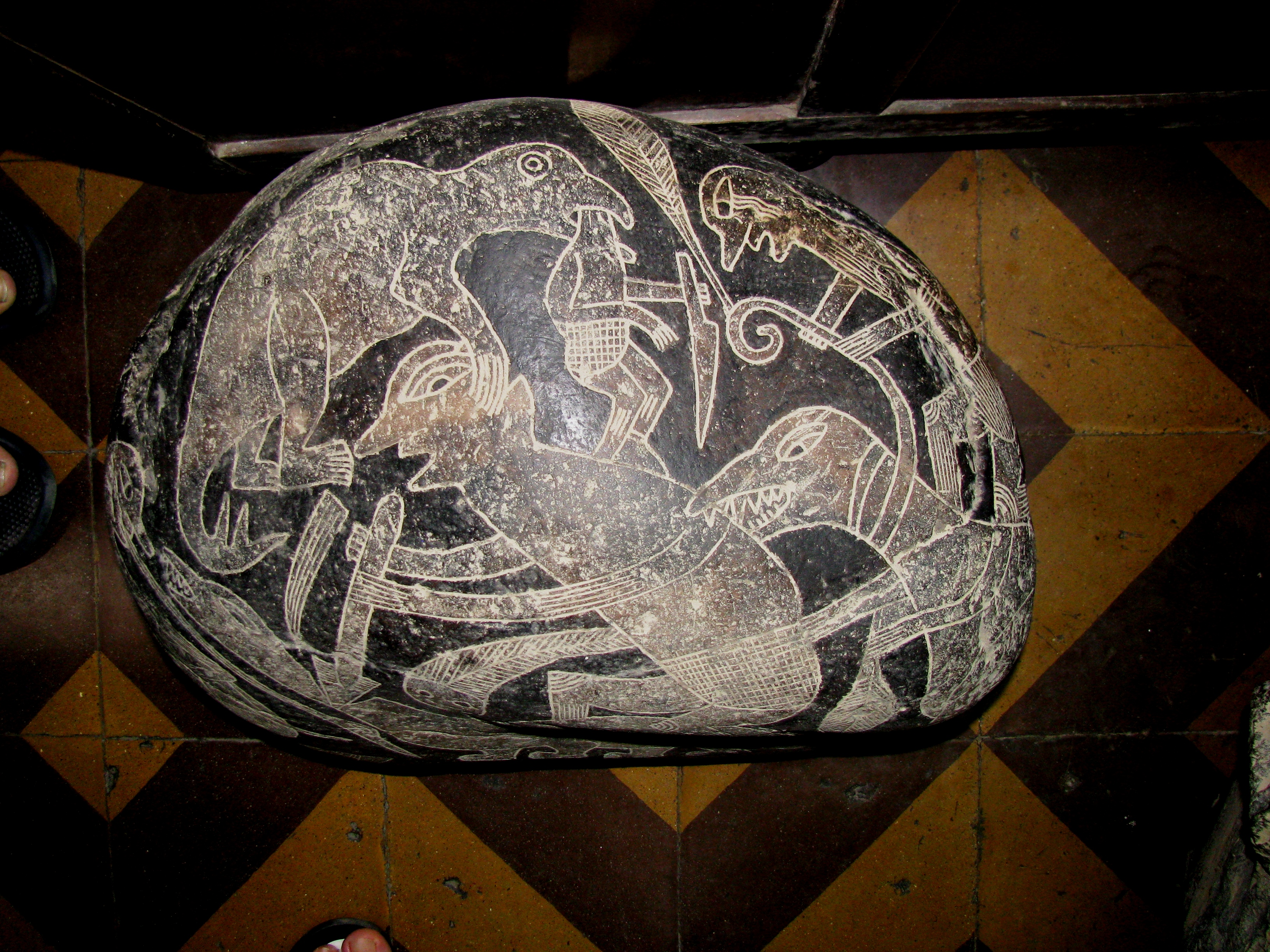 Ica stones